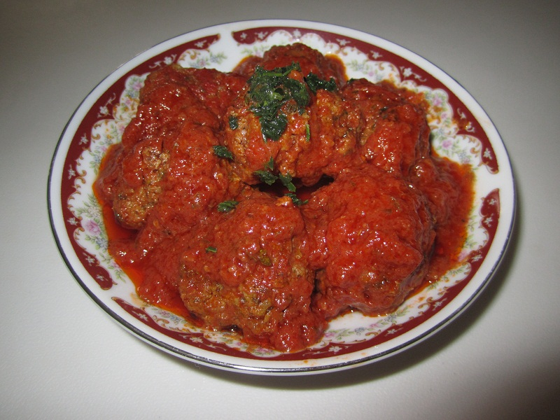 shefteh is a local food that cooked in arak city-iran